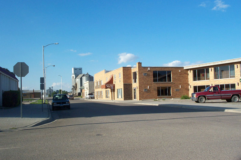 Grafton, North Dakota. From .